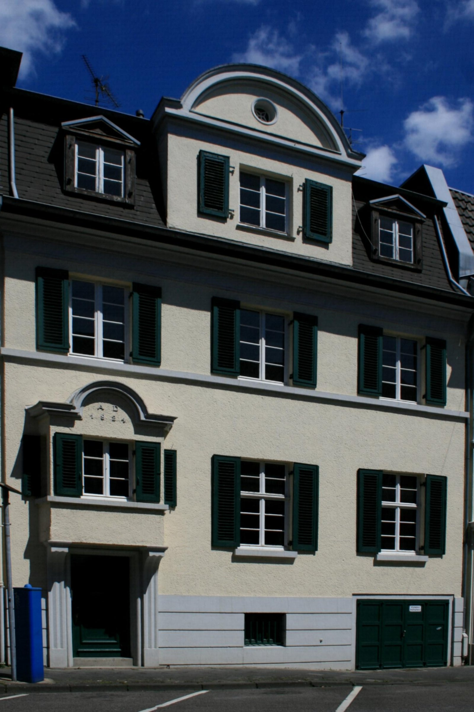 Cultural heritage monument No. Sch 043 in Mönchengladbach